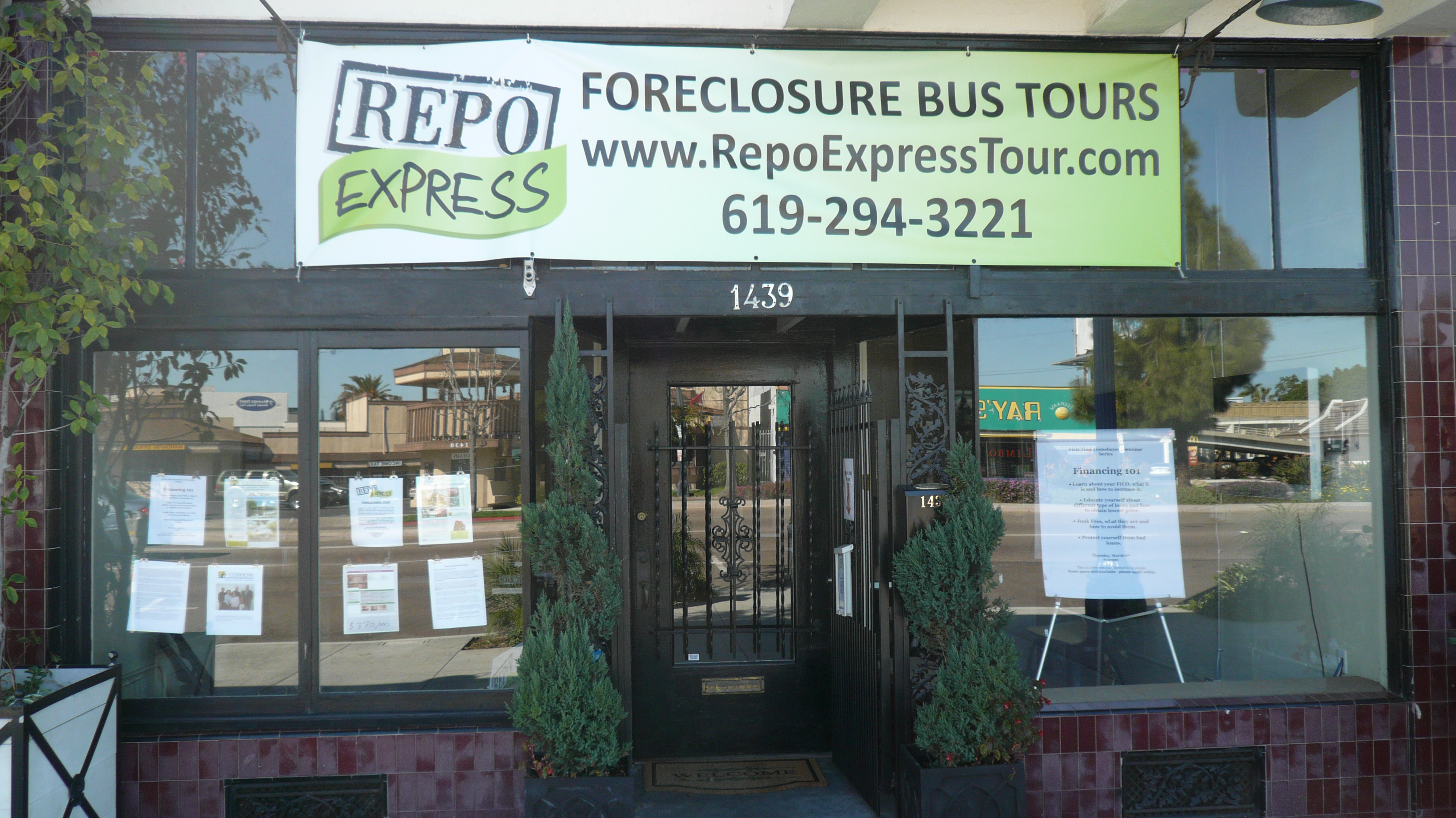 Bustour touring foreclosures in San Diego